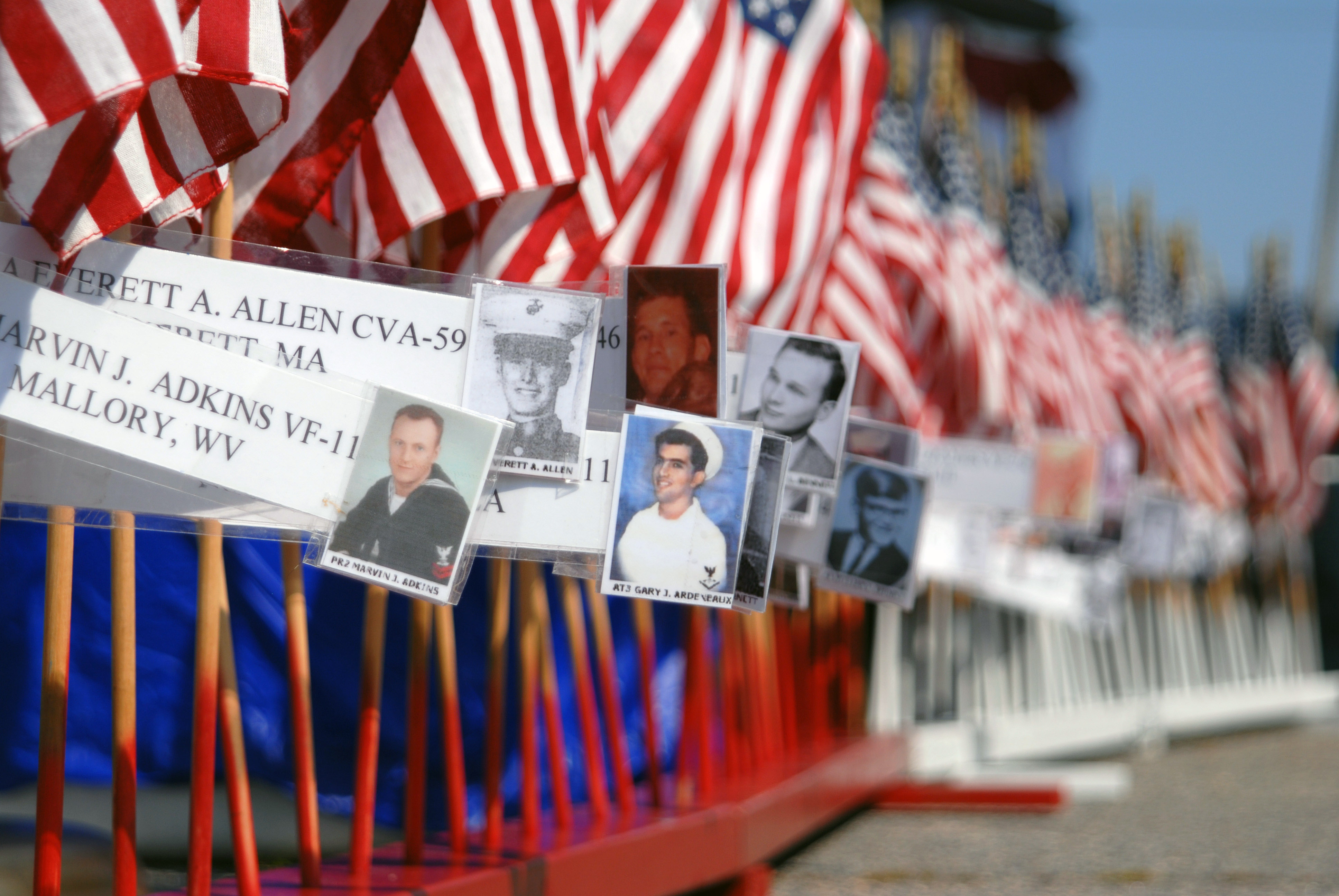 070727-N-8907D-024 NORFOLK, Va. (July 27, 2007) - Flags and photos line the path at the USS Forrestal Memorial Ceremony. The Navy's Farrier Fire Fighting School Learning Site hosted the 40th memorial anniversary of the catastrophe aboard USS Forrestal (CVA 59), held by members of the USS Forrestal Association.